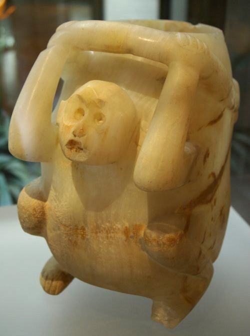 Monkey effigy jar for pulque, Aztec, 1200-1520 CE, onyx marble, Dumbarton Oaks Museum, Washington, DC